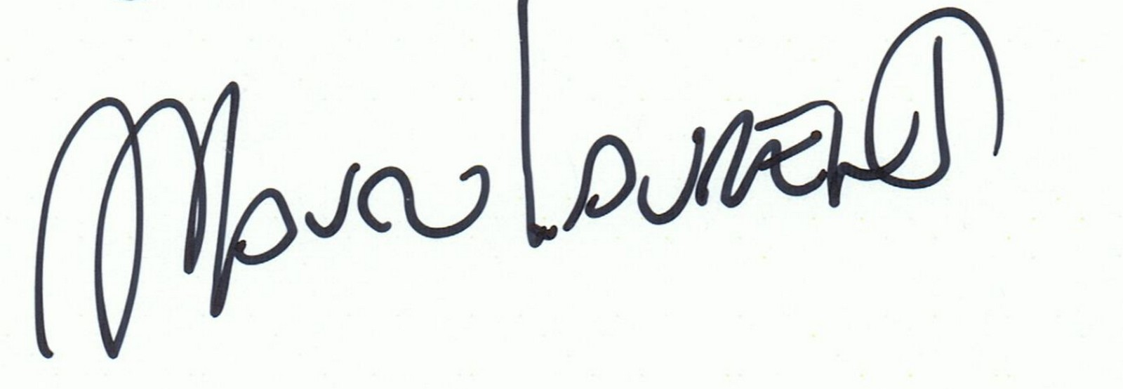 Mauro Laurenti's signature